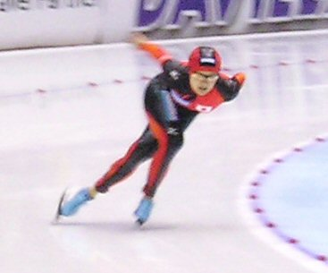 Maki Tabata (JPN) at a World Cup in Thialf (Heerenveen, The Netherlands)